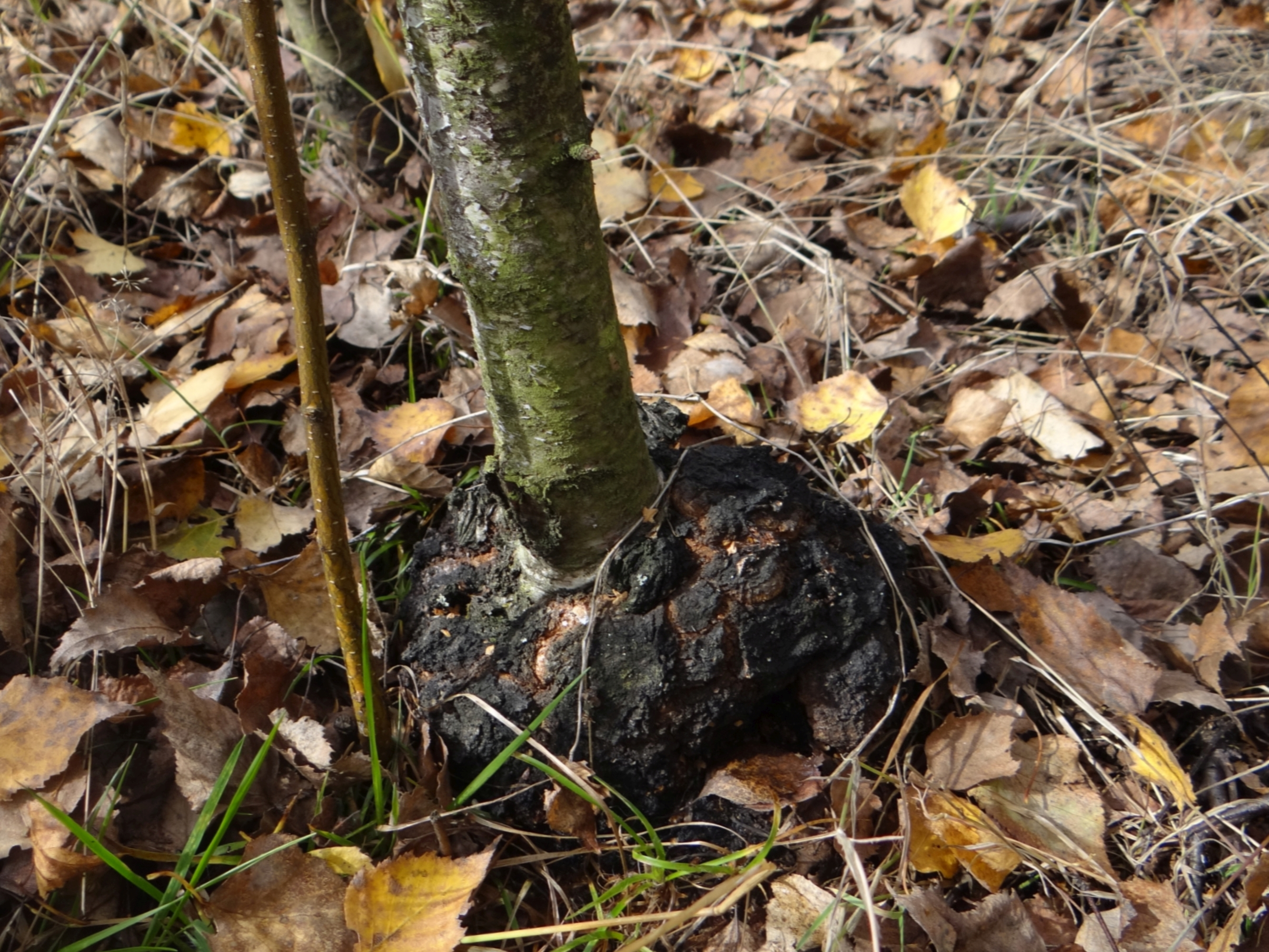 Bacterial gall. Agrobacterium tumefaciens. Location: Poland, Beskid Wyspowy, Kostrza